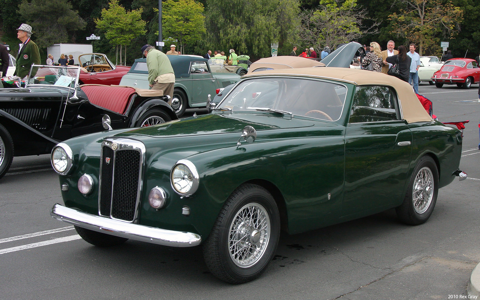 1953 Arnolt-MG Greystone Mansion Inaugural Concours d'Elegance, April 11, 2010